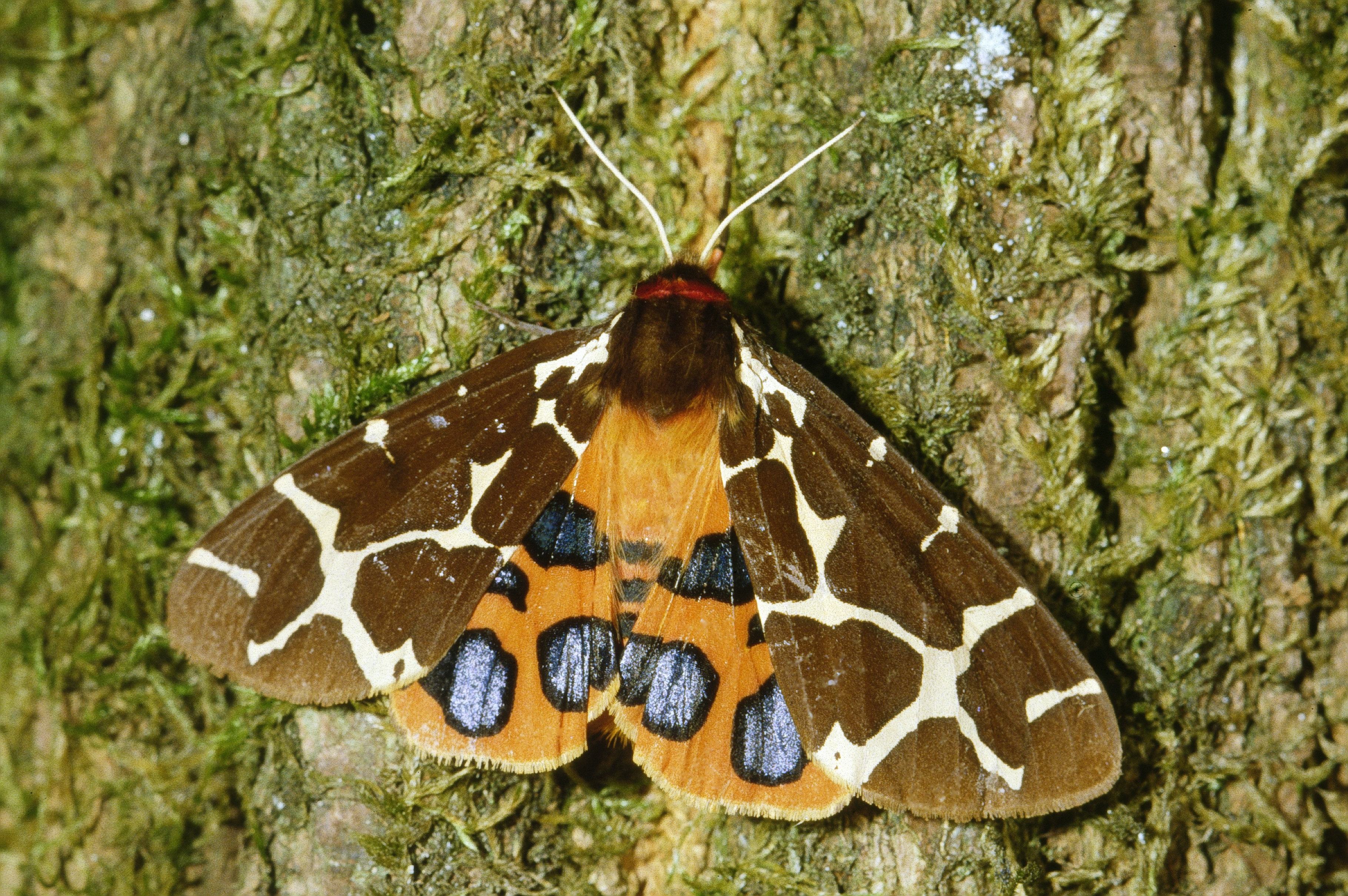 Arctia caja taken in Calvados (France 14)